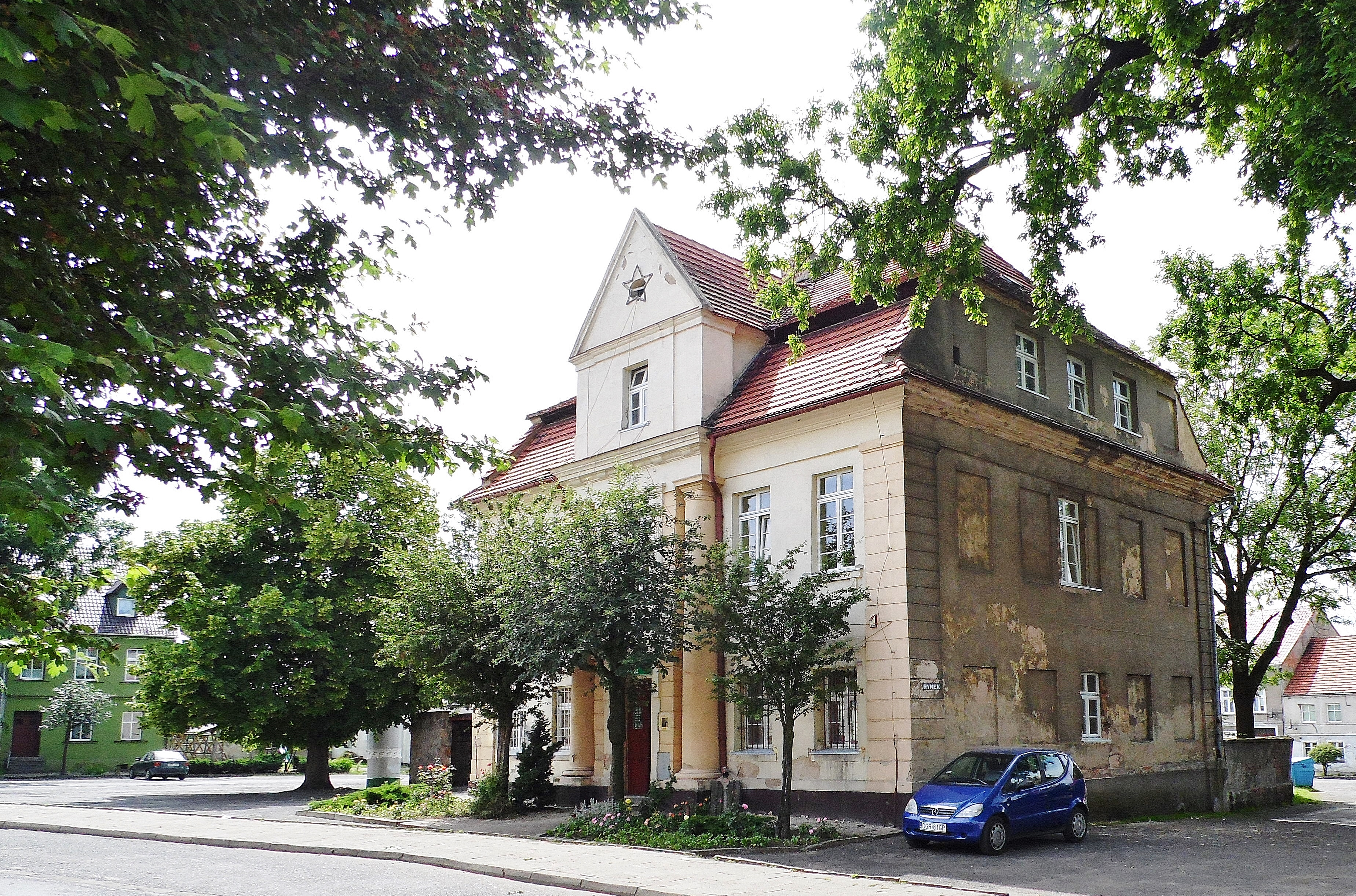 City Hall - Market 22 (p Mon. - E.) Czernina / district górowski / province. Lower Silesia / Poland